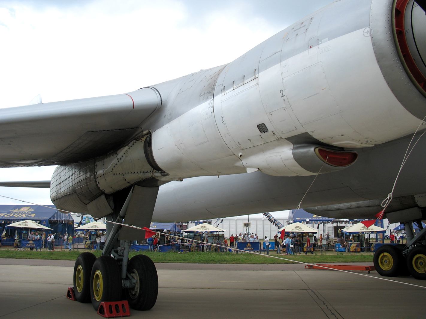 The right rack of the chassis of Tu-95MS (the international aerospace salon MAKS-2007)